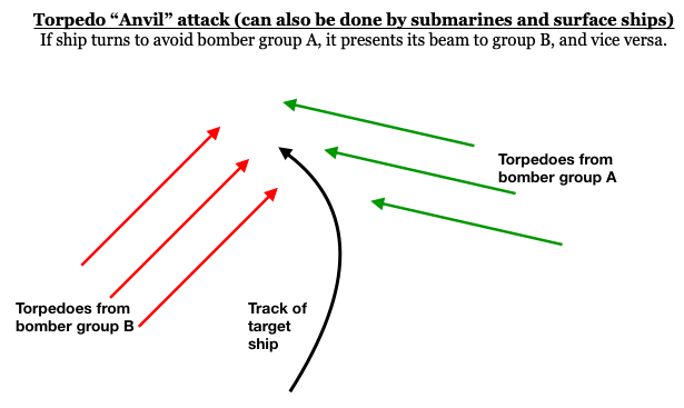 How a torpedo "anvil attack" plays out.